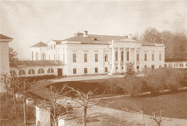 Koshchino, the manor house of Prince Obolensky